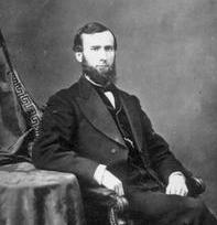 Robert Milton Speer, US Representative from Pennsylvania